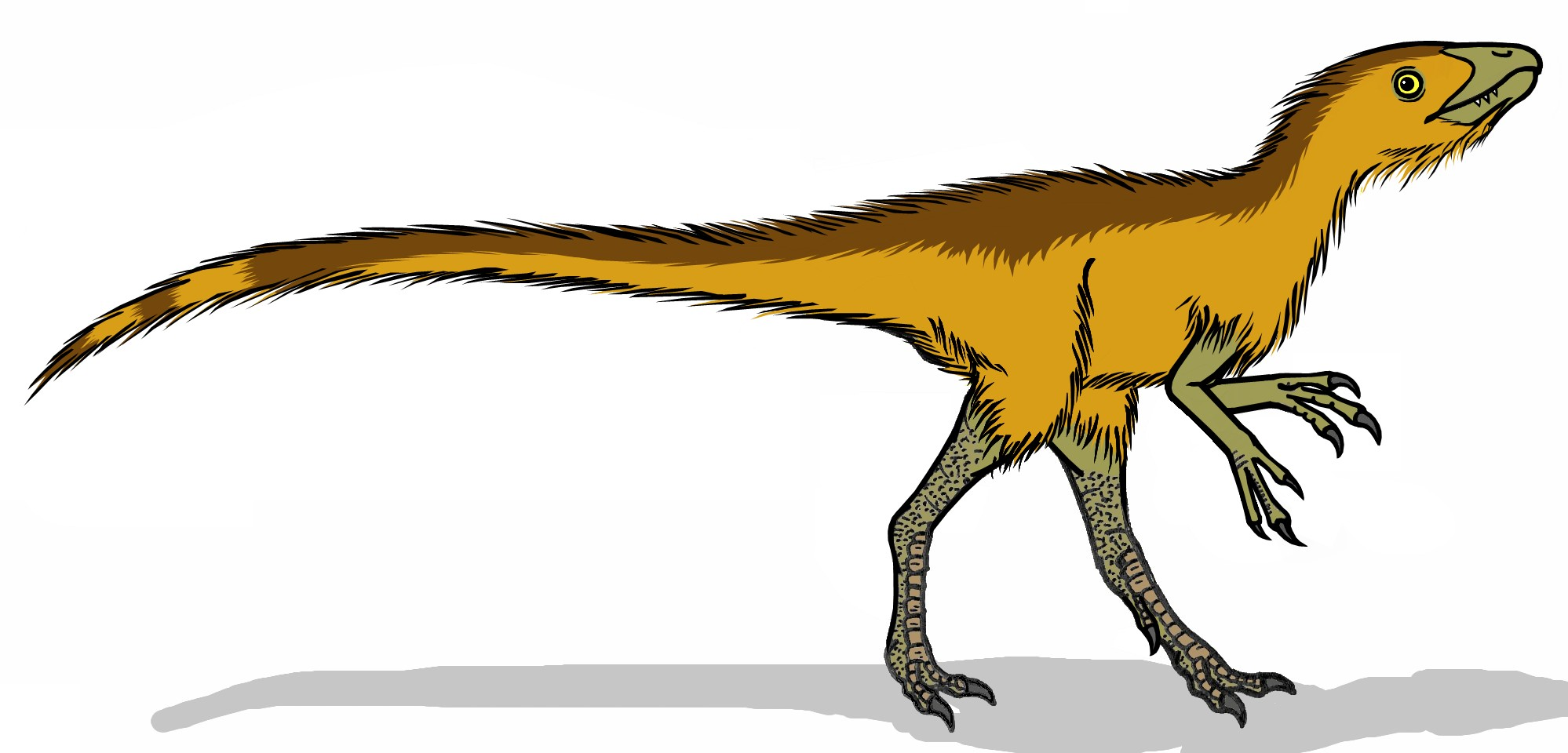 Reconstructed version of the small theropod dinosaur Scipionyx, a coelurosaurian found in Italia, and dated to be about 115 million years old. Here, it is depicted with feathers. HERE is a version without feathers.